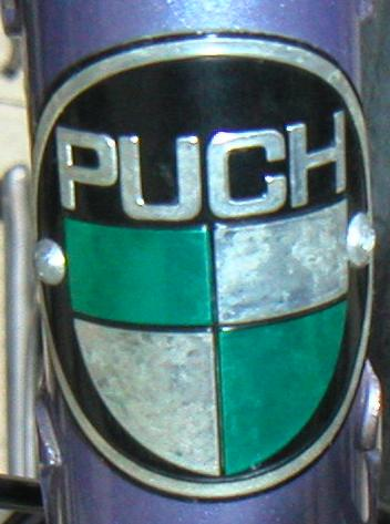 Head badge from a Puch bicicle